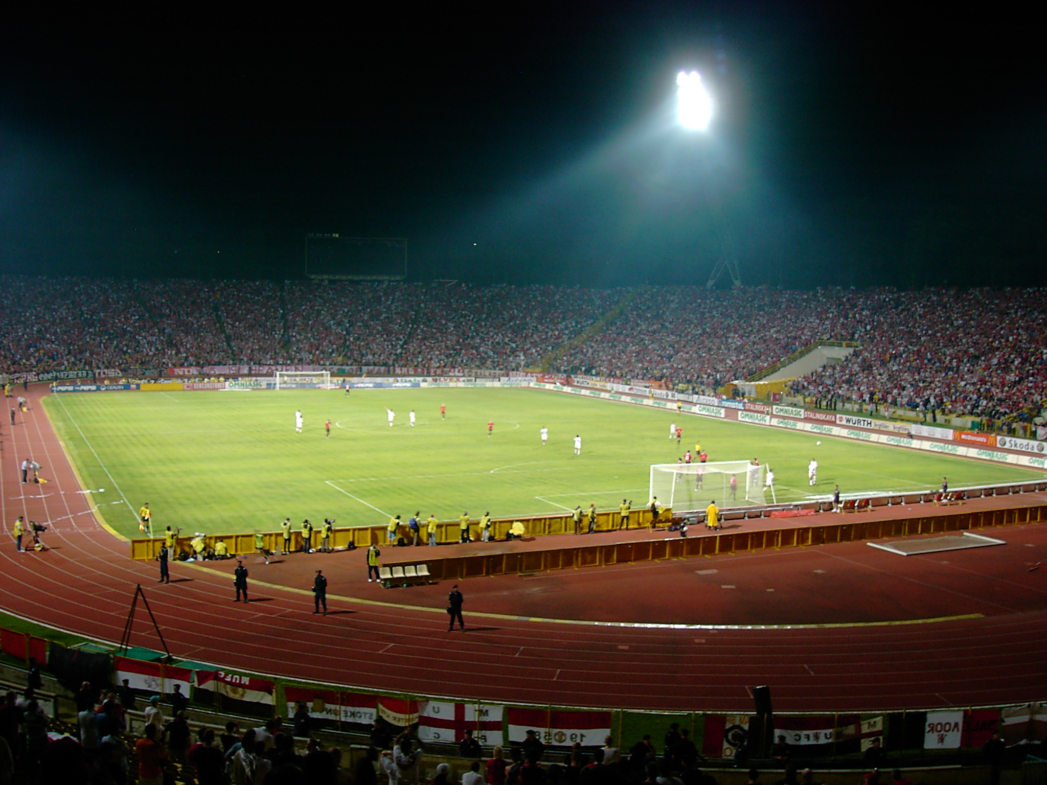 The National Stadium in Bucharest, taken at a football match between Dinamo Bucharest and Manchester United on 11 August 2004.Spectators 68000